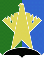 Coat of Arms of Surgutsky rayon (Khanty-Mansyisky AO)